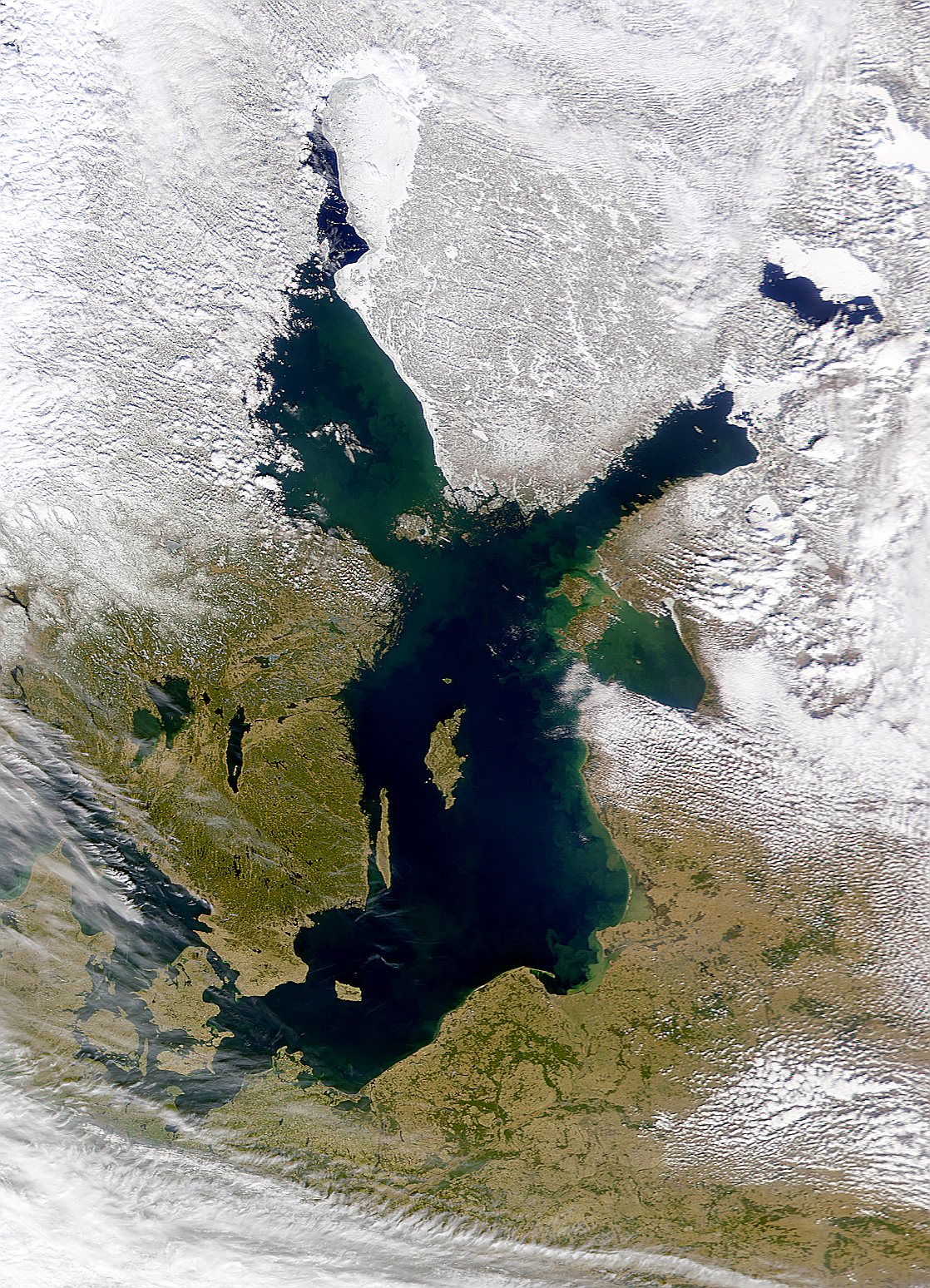 Baltic Sea in March 2000 NASA Visible Earth gallery.